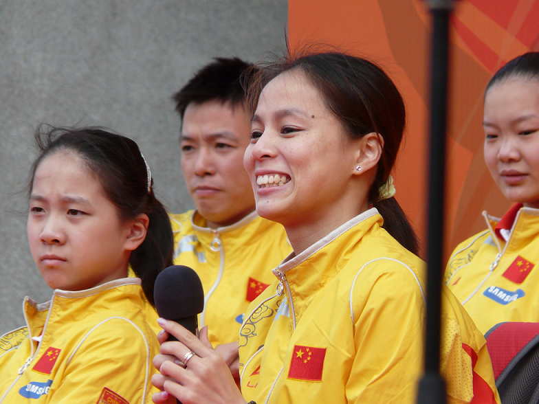 Huang Shan Shan participated in a function at Hong Kong Polytechnic University